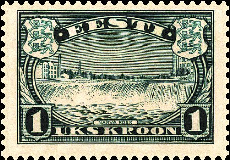 Postage stamps and postal history of Estonia. Location: Estonia, Tallinn.